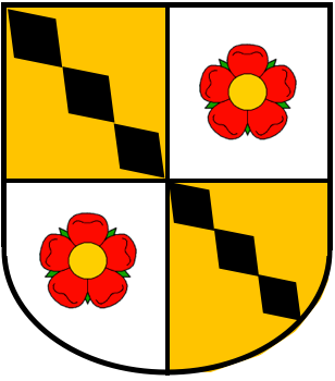 Coat of arms of Johan von Selbach, *ca.1480, +1563, Crottorf (Nassau, Germany)